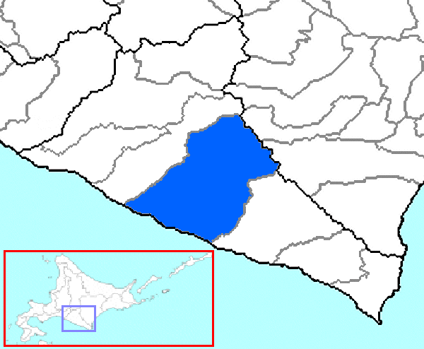 The location of Shinhidaka in Hidaka Subprefecture, Hokkaido Prefecture, Japan.